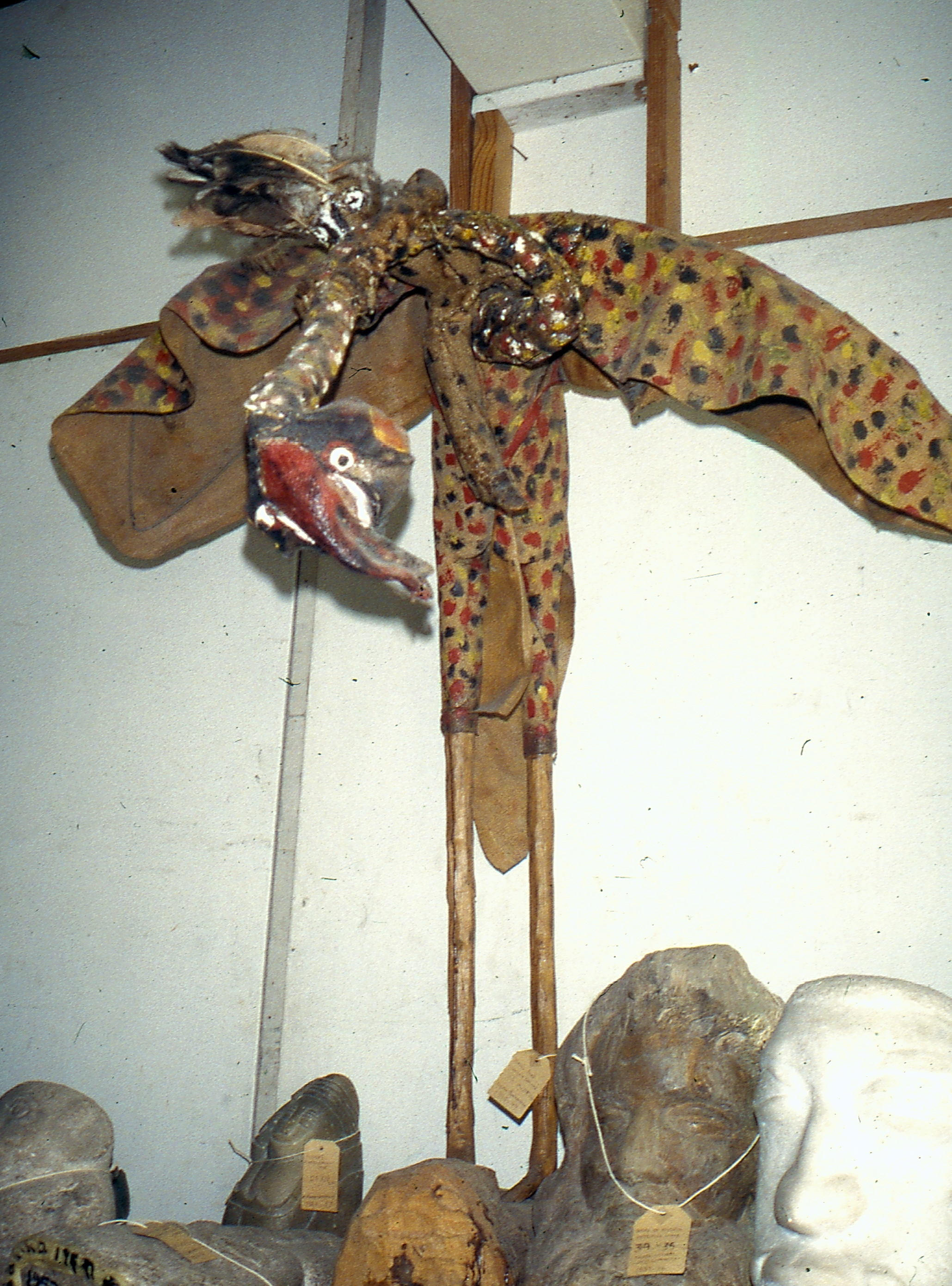 This mixed-media work shows Ndandarika's early interest in witchcraft scenes while at Frank McEwen's Workshop School